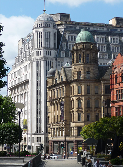 Sunlight House in the background with London Scottish House in the foreground